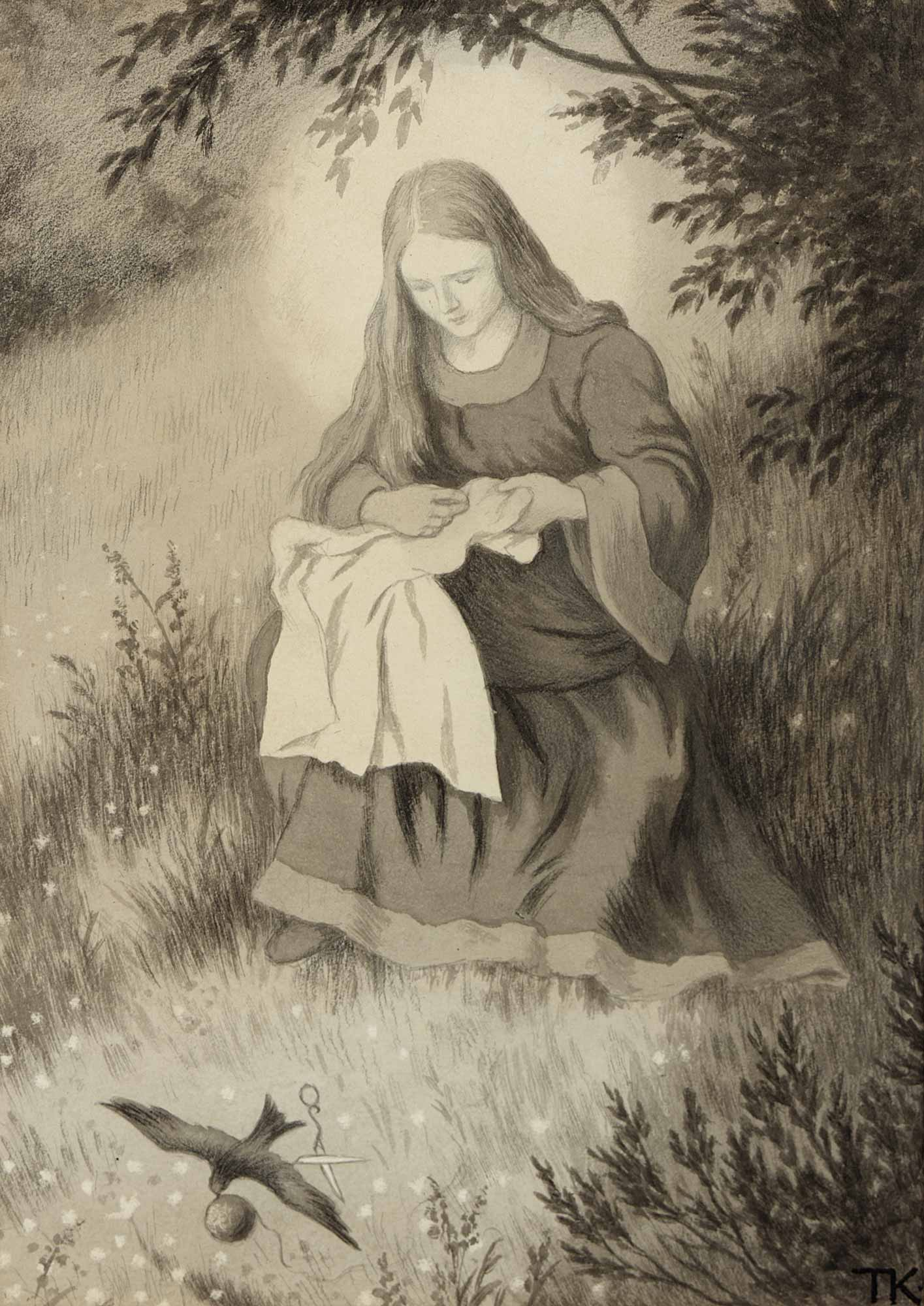 Theodor Kittelsen (1857 – 1914) Black and white sketches